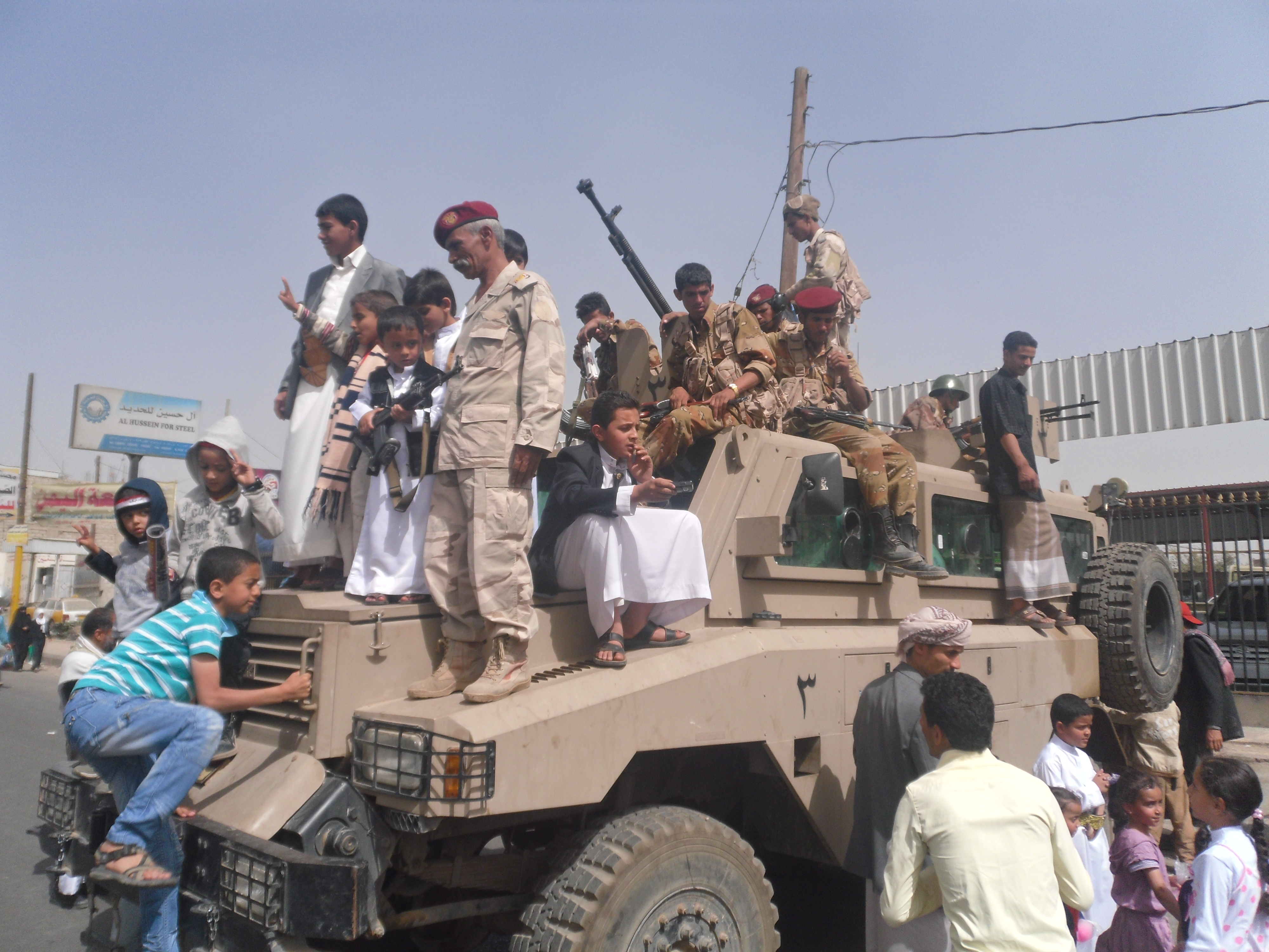 Sana'a "60 street" February 1st,2012